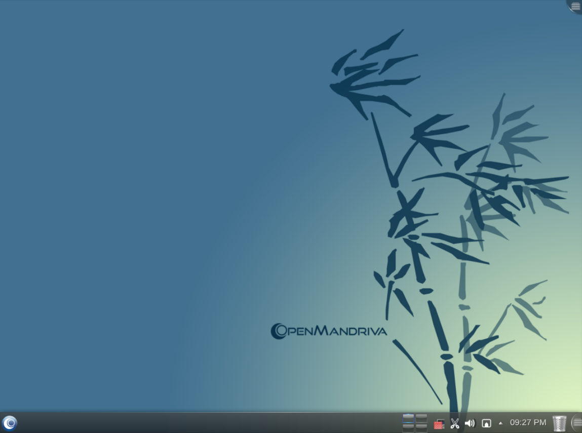 Screenshot of OpenMandriva Lx 2014 Phosphorus